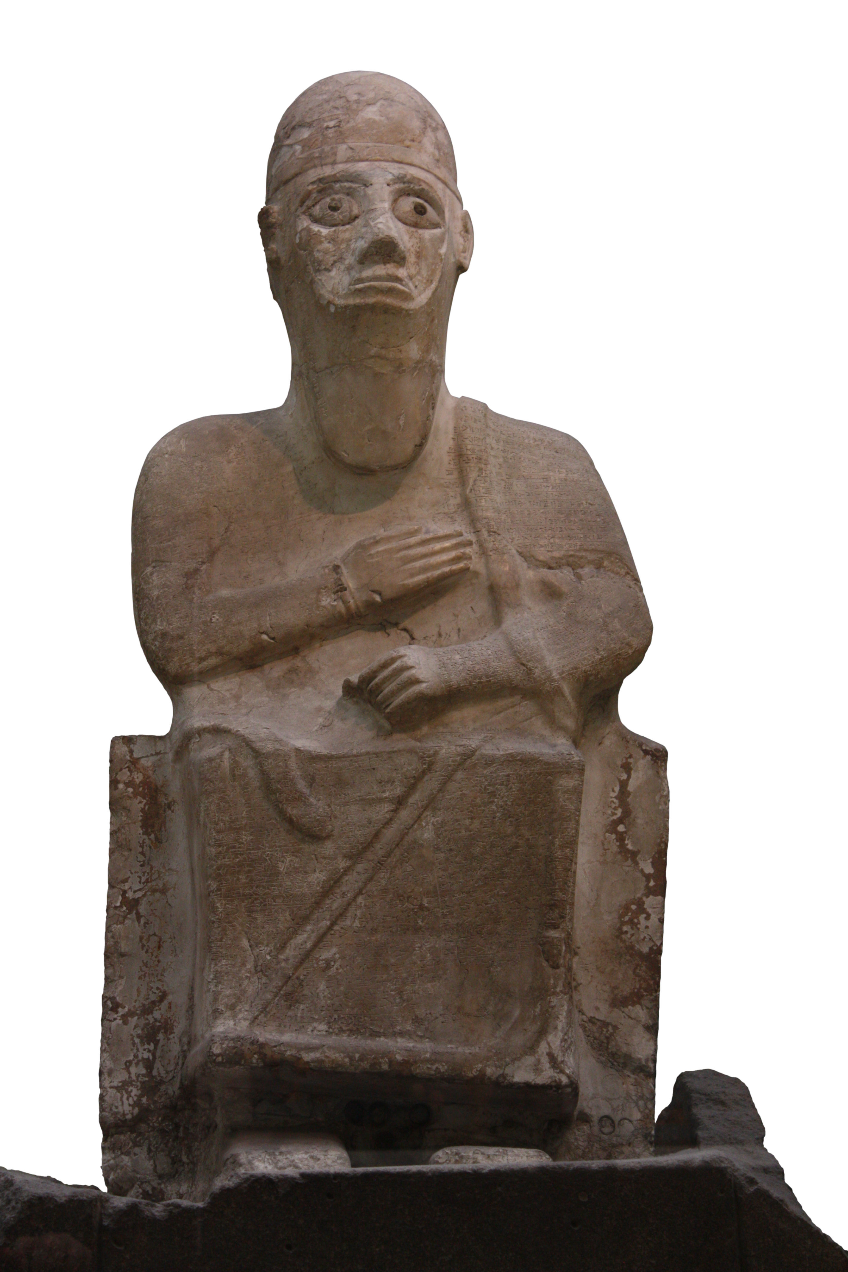 The Statue of Idrimi